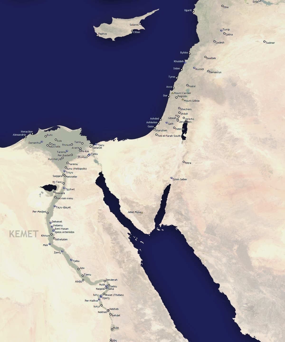 Ancient sites of the Levant (selection) and Egypt